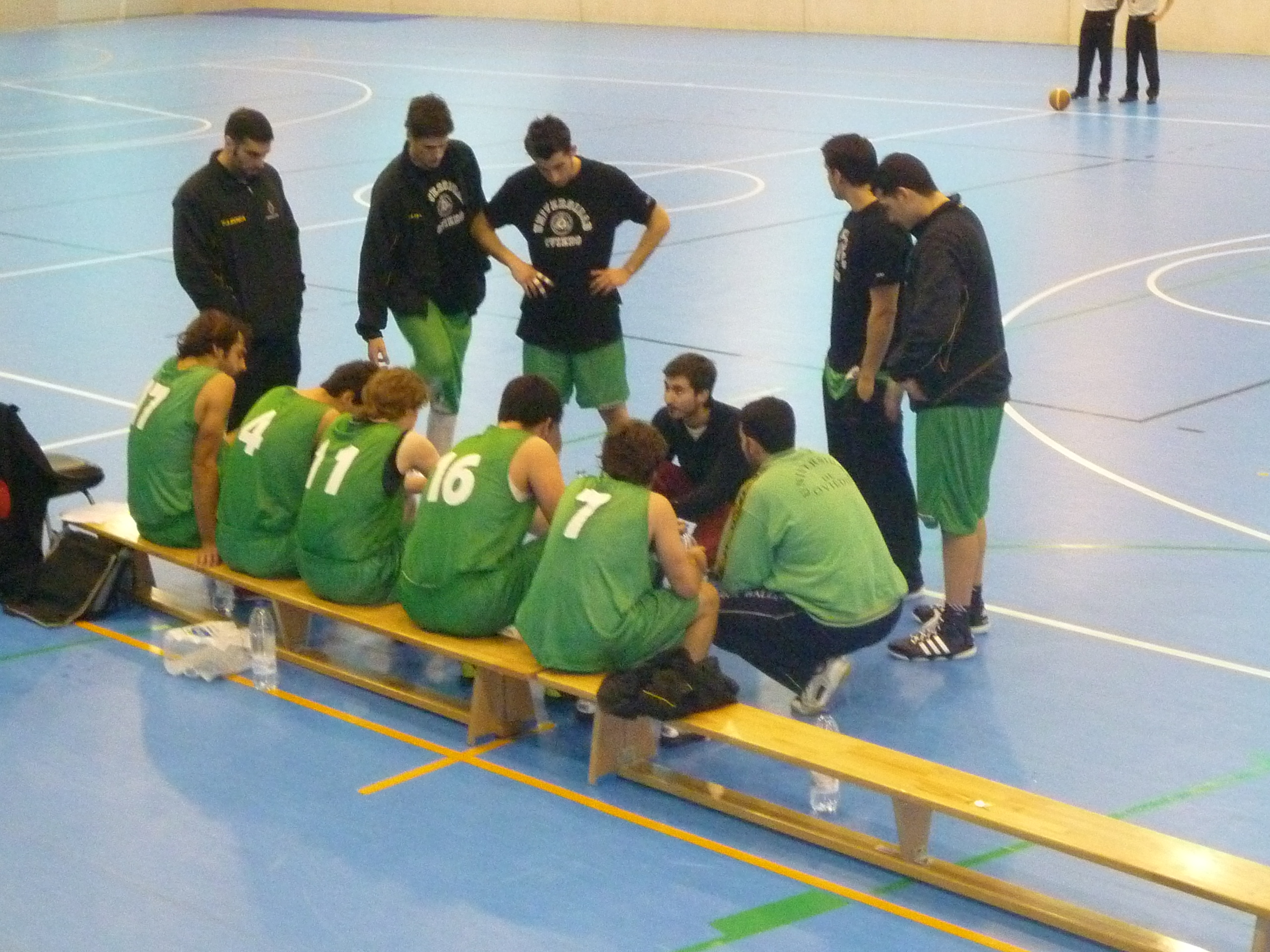 El equipo de Liga EBA, en un tiempo muerto durante un partido de la temporada 2011-2012 disputado en el Polideportivo Universitario de Mieres.